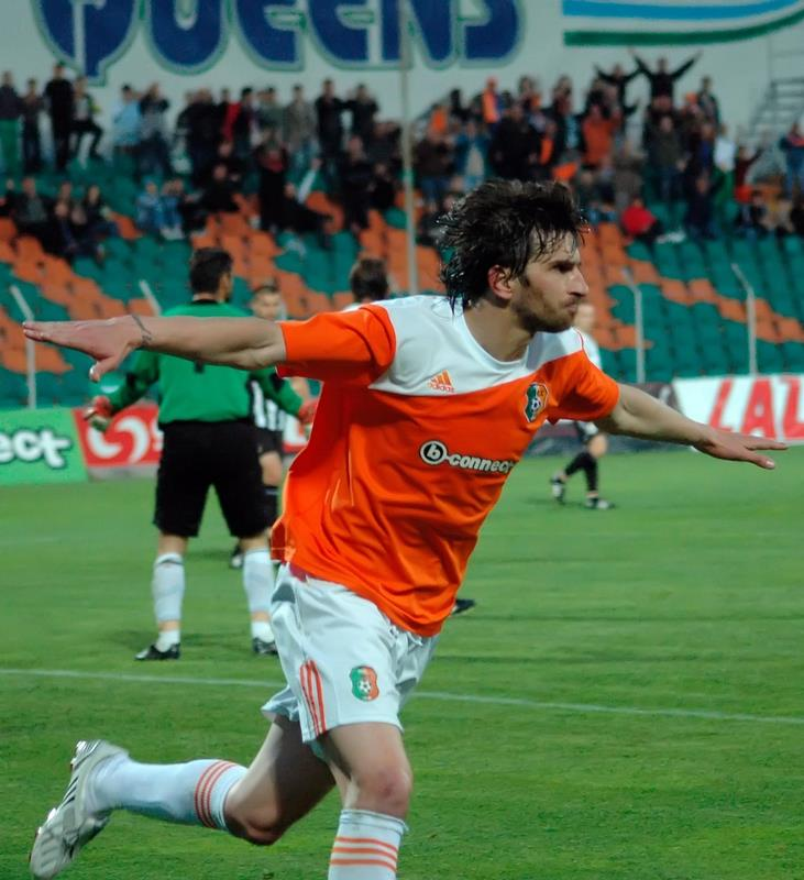 Krum Bibishkov (playing for Litex Lovech) celebrates a goal against Lokomotiv Plovdiv in May 2009.